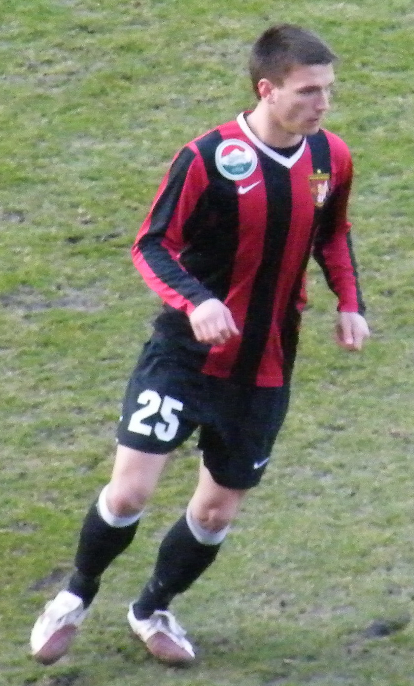 Marko Šimić, Croatian football player